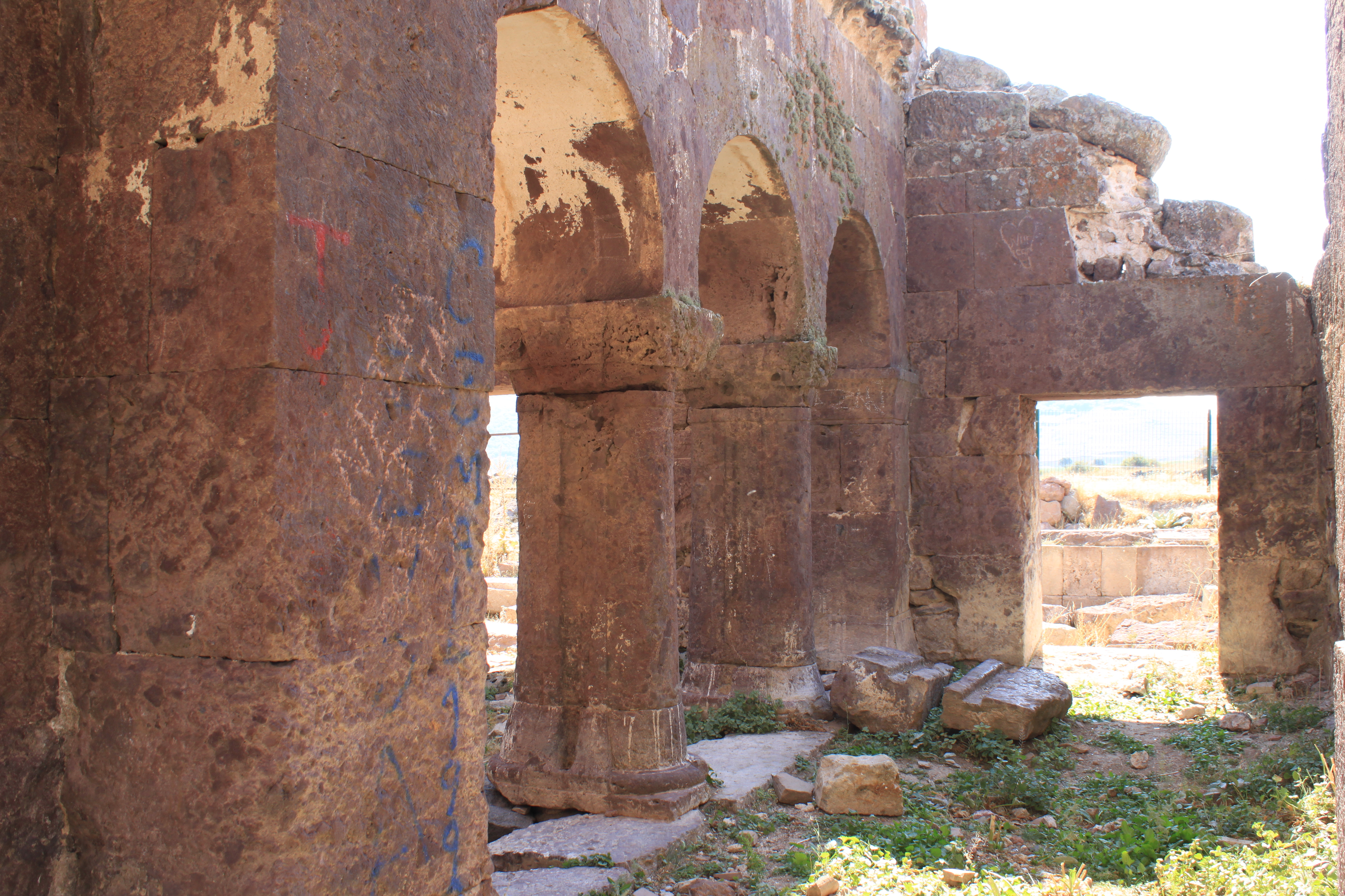 Kısıl Kilise ("red church") in Sivrihisar, Güzelyurt (Aksaray)